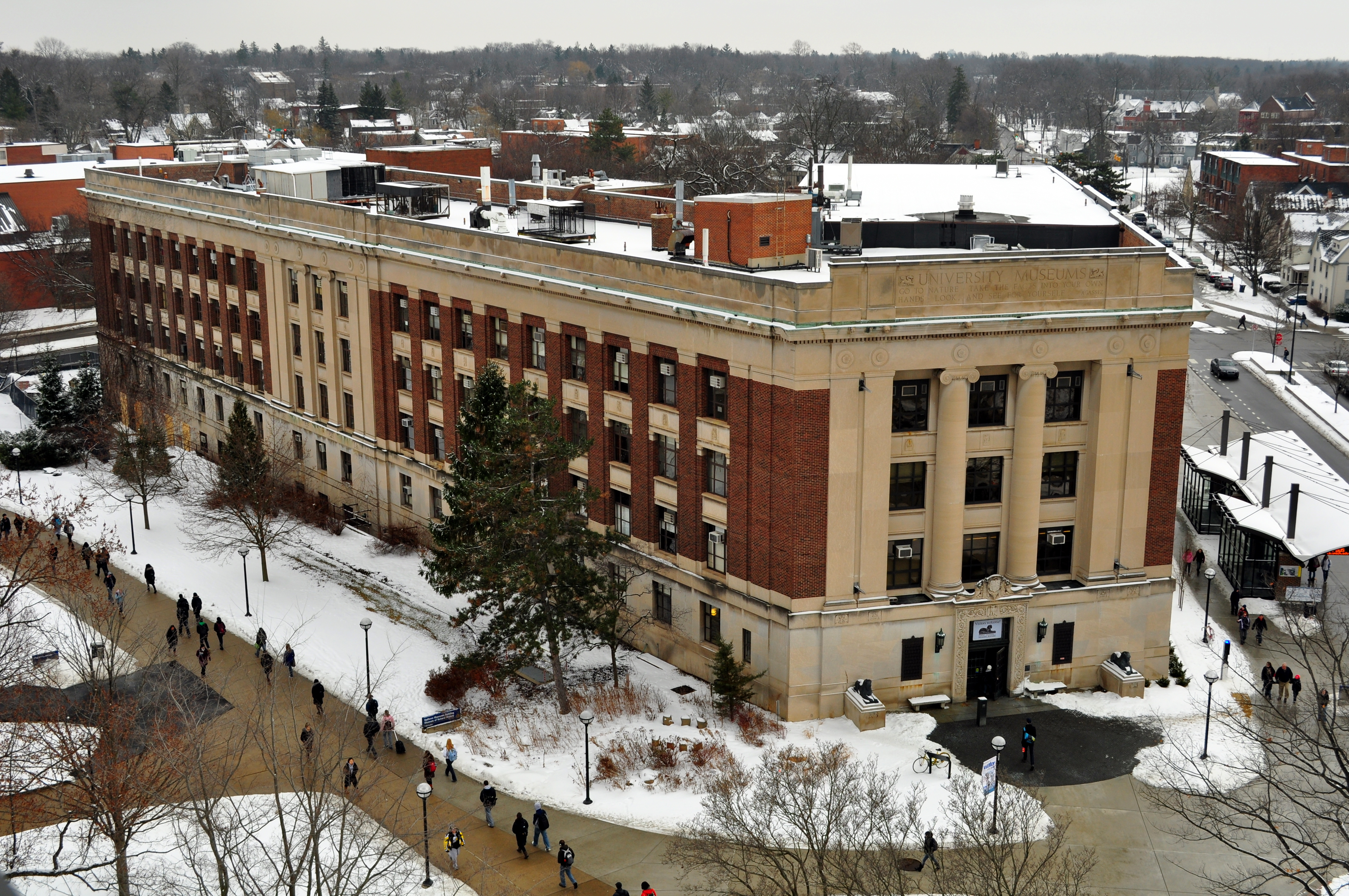 A photo from above of the Ruthven Exhibit Museums